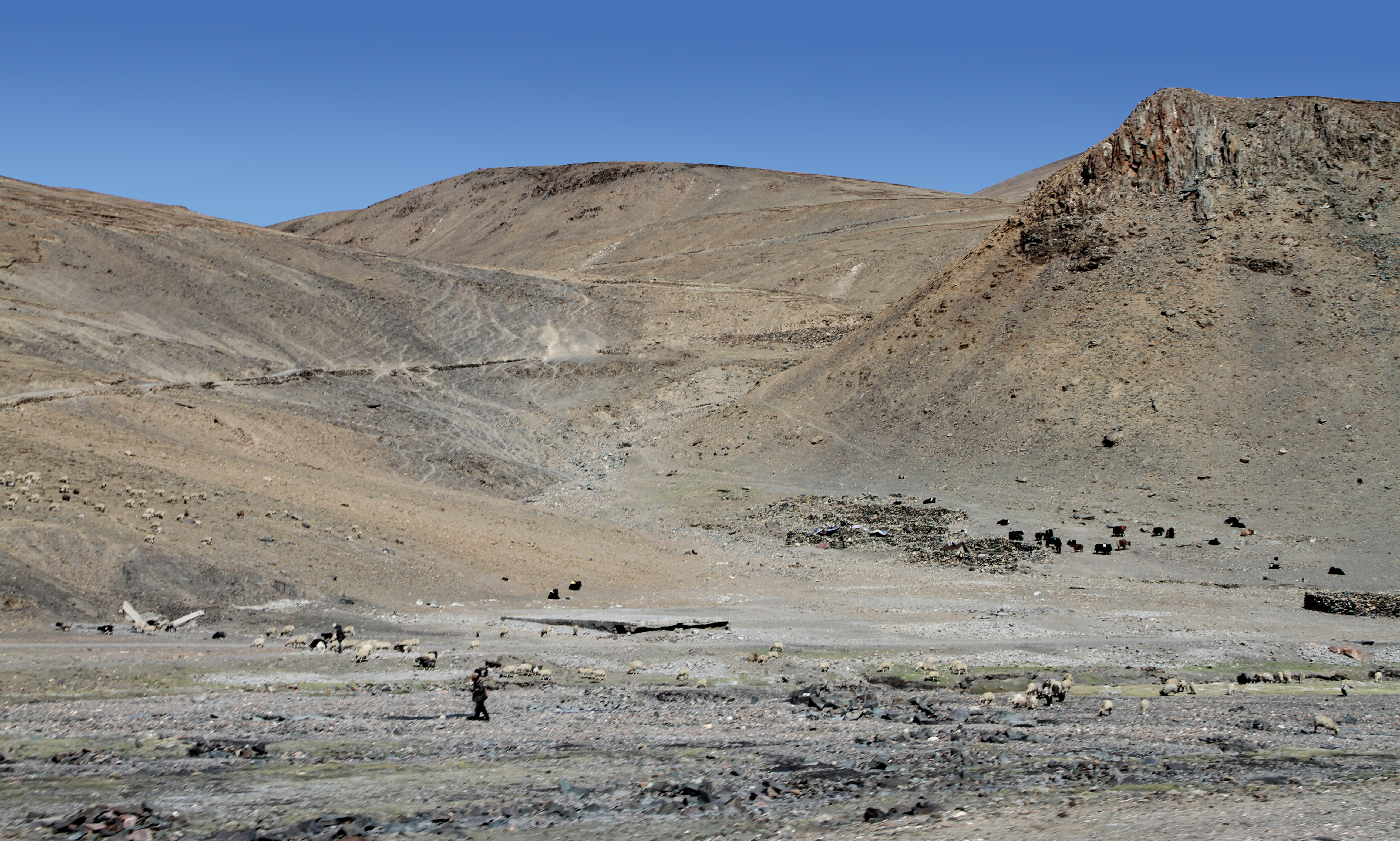 Agriculture in Xigazê prefecture in Tibet